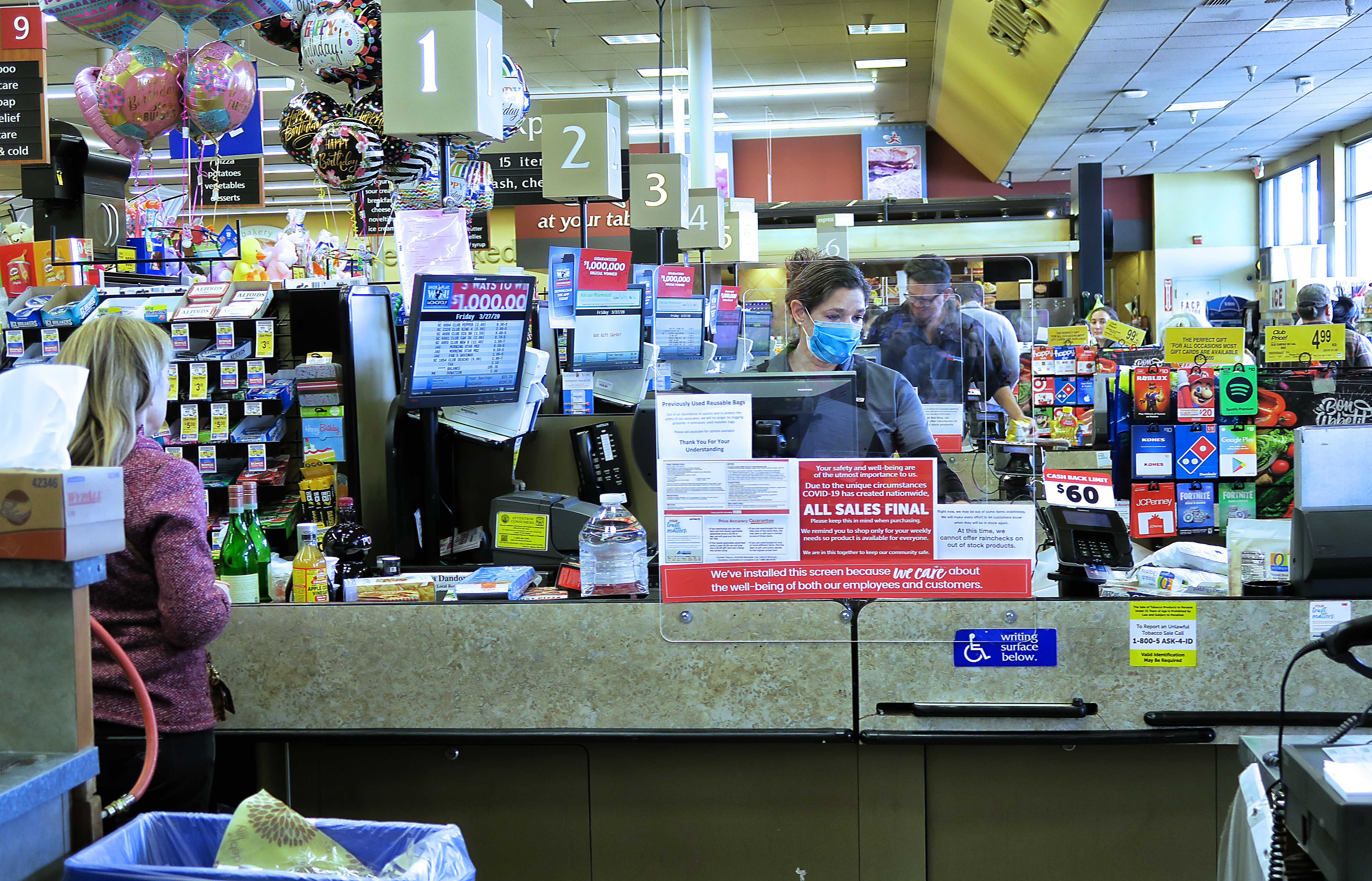 A supermarket checker works behind a plastic shield in a dangerous place. Grocery store workers.